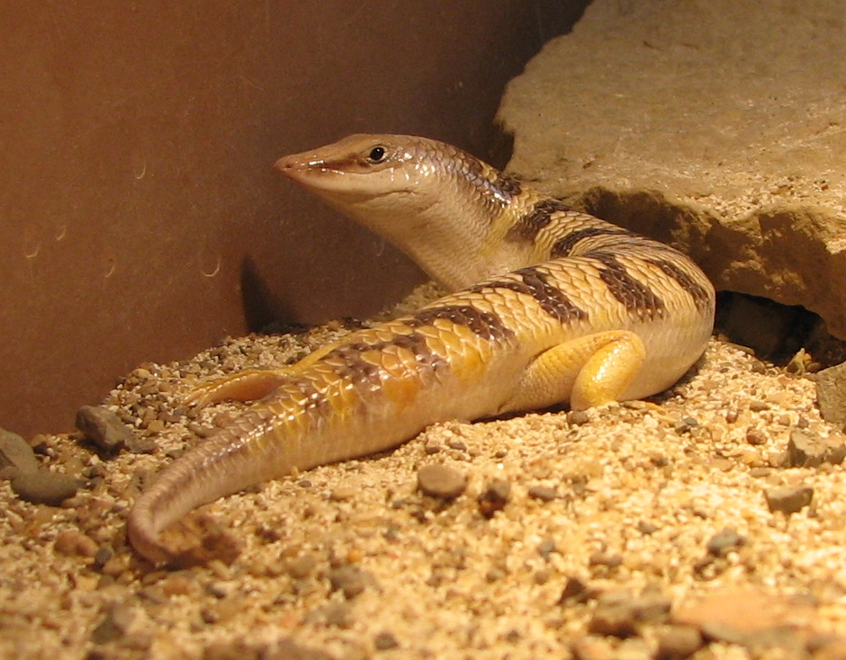 Sandfish - Scincus scincus